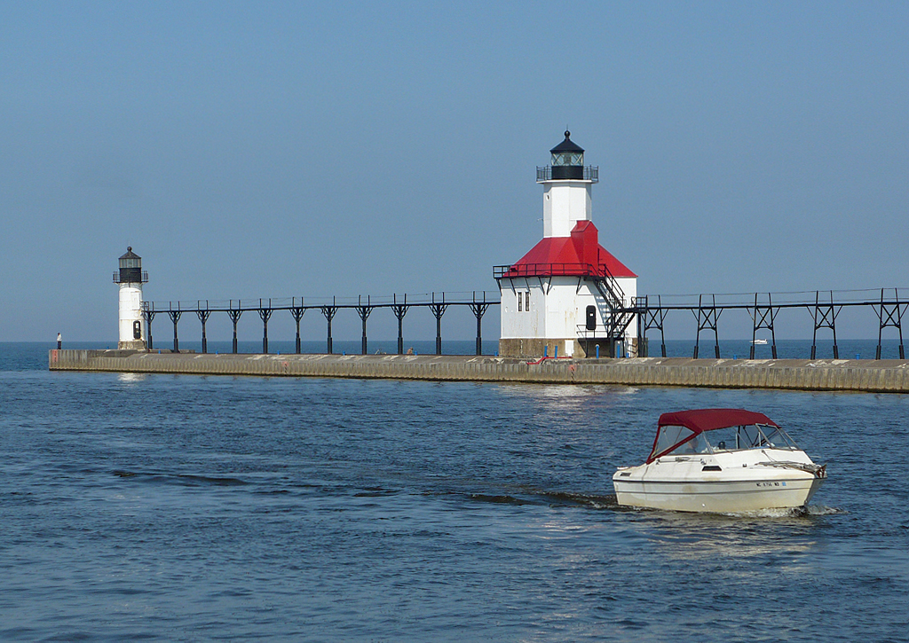 Lighthouse of Benton Harbor and St. Joseph